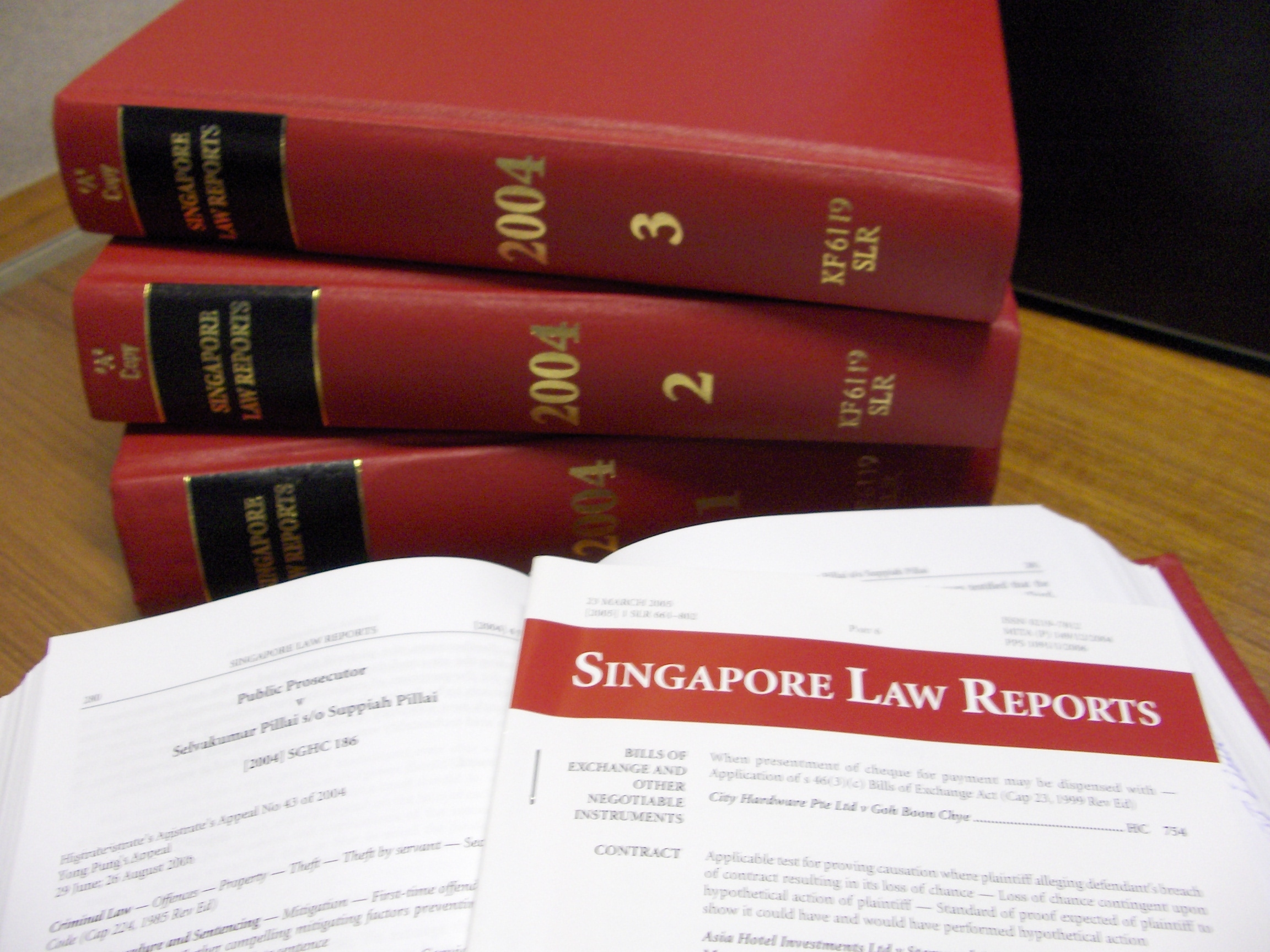 Bound volumes, a loose issue and a case from the Singapore Law Reports, Singapore's official series of law reports. Photographed at the Library of the Supreme Court of Singapore which was formerly in the City Hall Building.